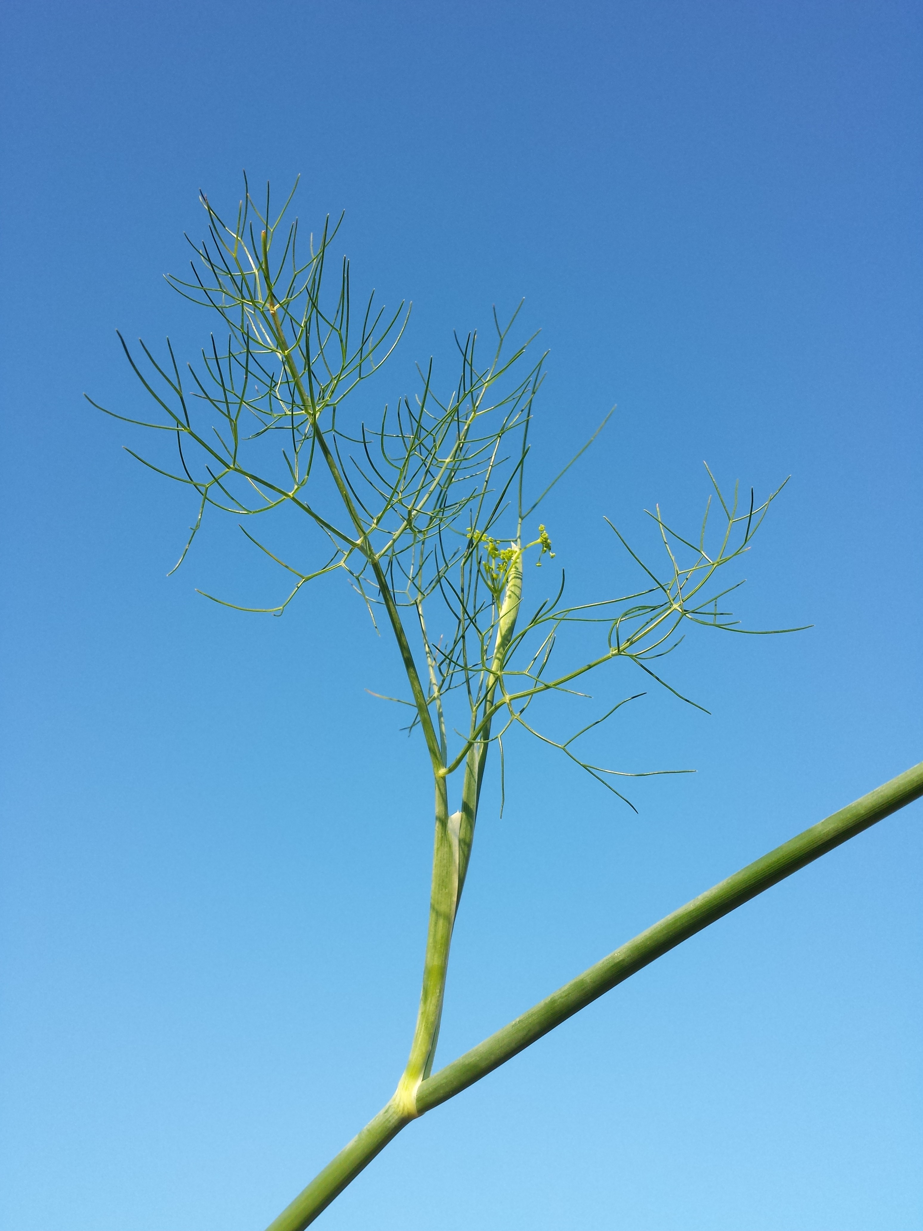 Stipe with leaf Taxonym: Foeniculum vulgare ss Fischer et al. EfÖLS 2008 ISBN 978-3-85474-187-9 Location: Neue Donau, Vienna-Floridsdorf - ca. 160 m a.s.l. Habitat: dry meadows